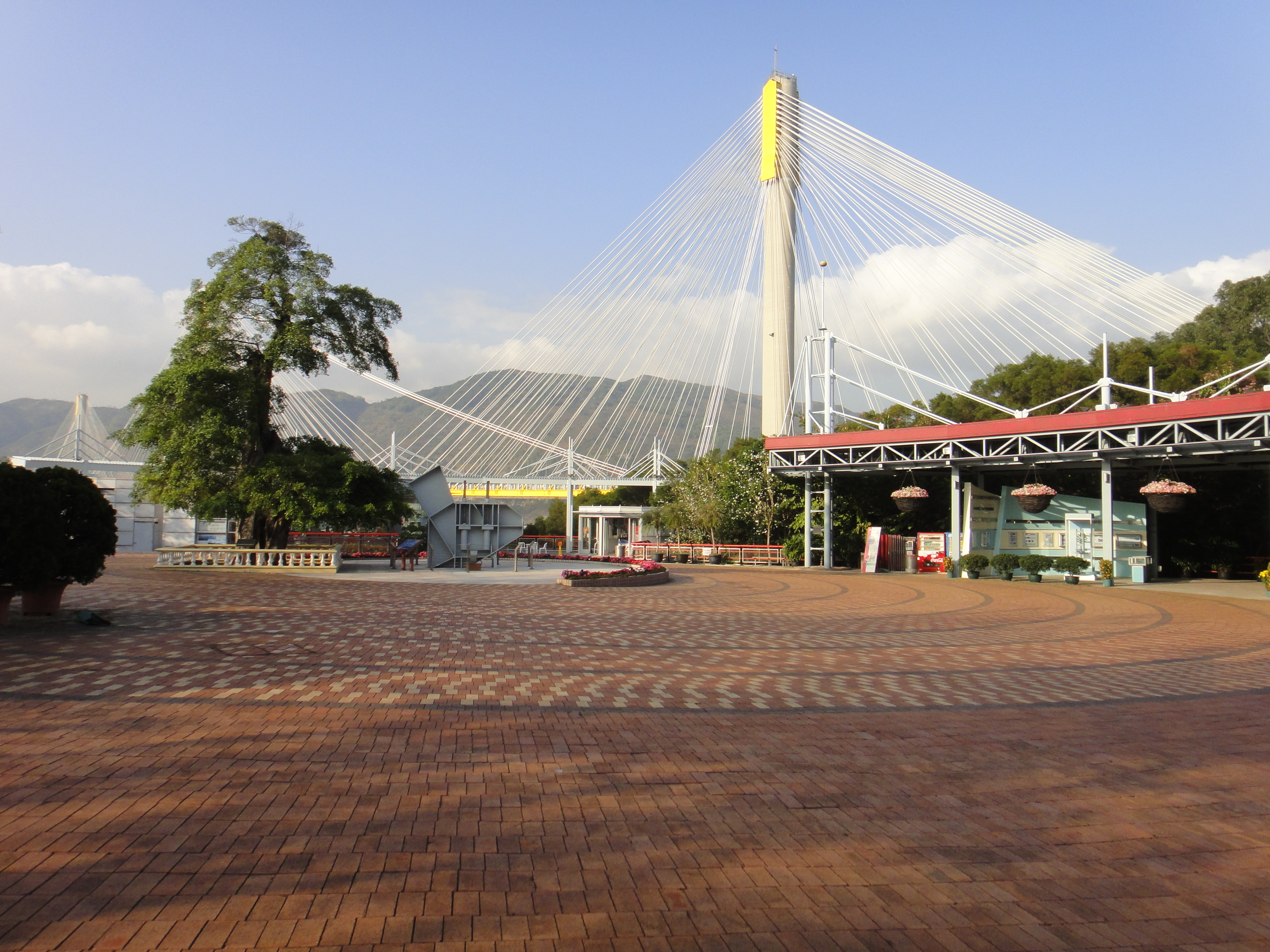 Lantau Link Visitors Center